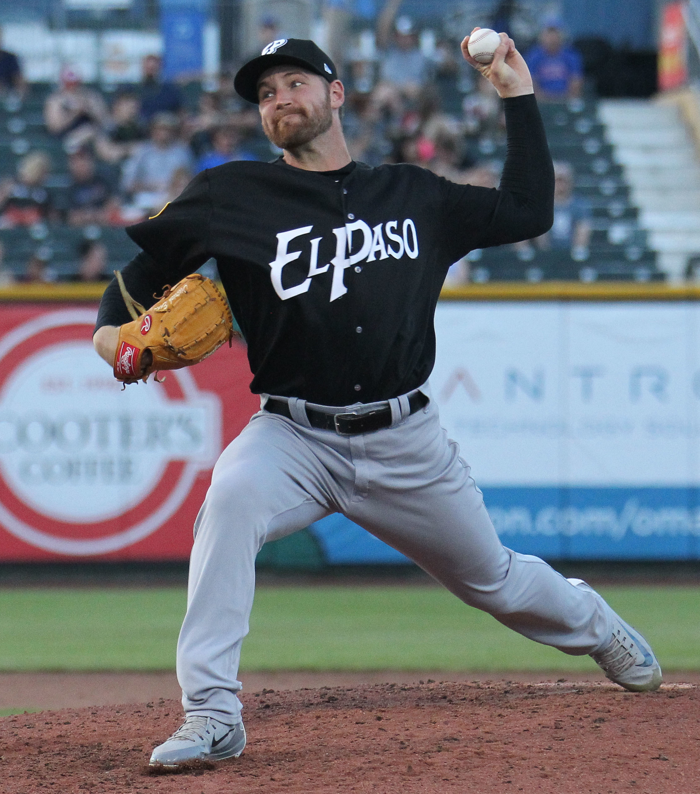 Dietrich Enns delivers a pitch for the El Paso Chihuahuas during a 2019 game at Werner Park in Nebraska.